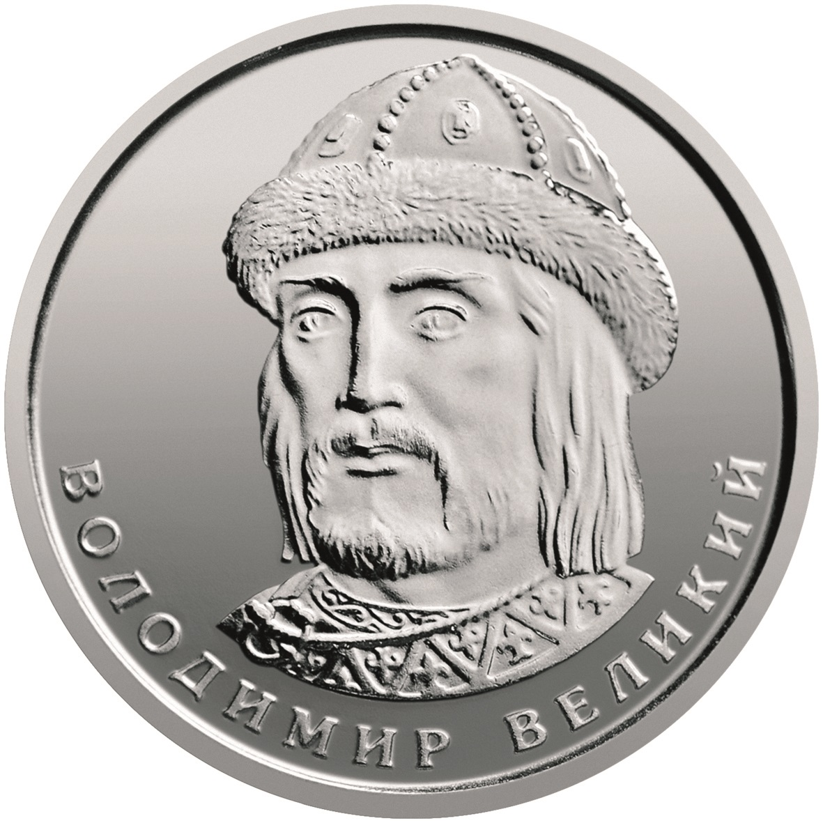 Ukrainian 1 hryvnia coin of 2018 series, reverse. Here is depicted Vladimir the Great, the Grand Prince of Kiev. Steel with galvanic coating, 18.9 mm in diameter, weights 3.3 g, reeded edge.